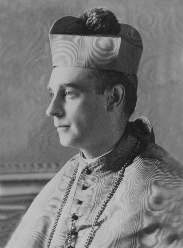 Photographical portrait of Servant of God Cardinal Rafael Merry del Val y Zulueta (1865-1930).